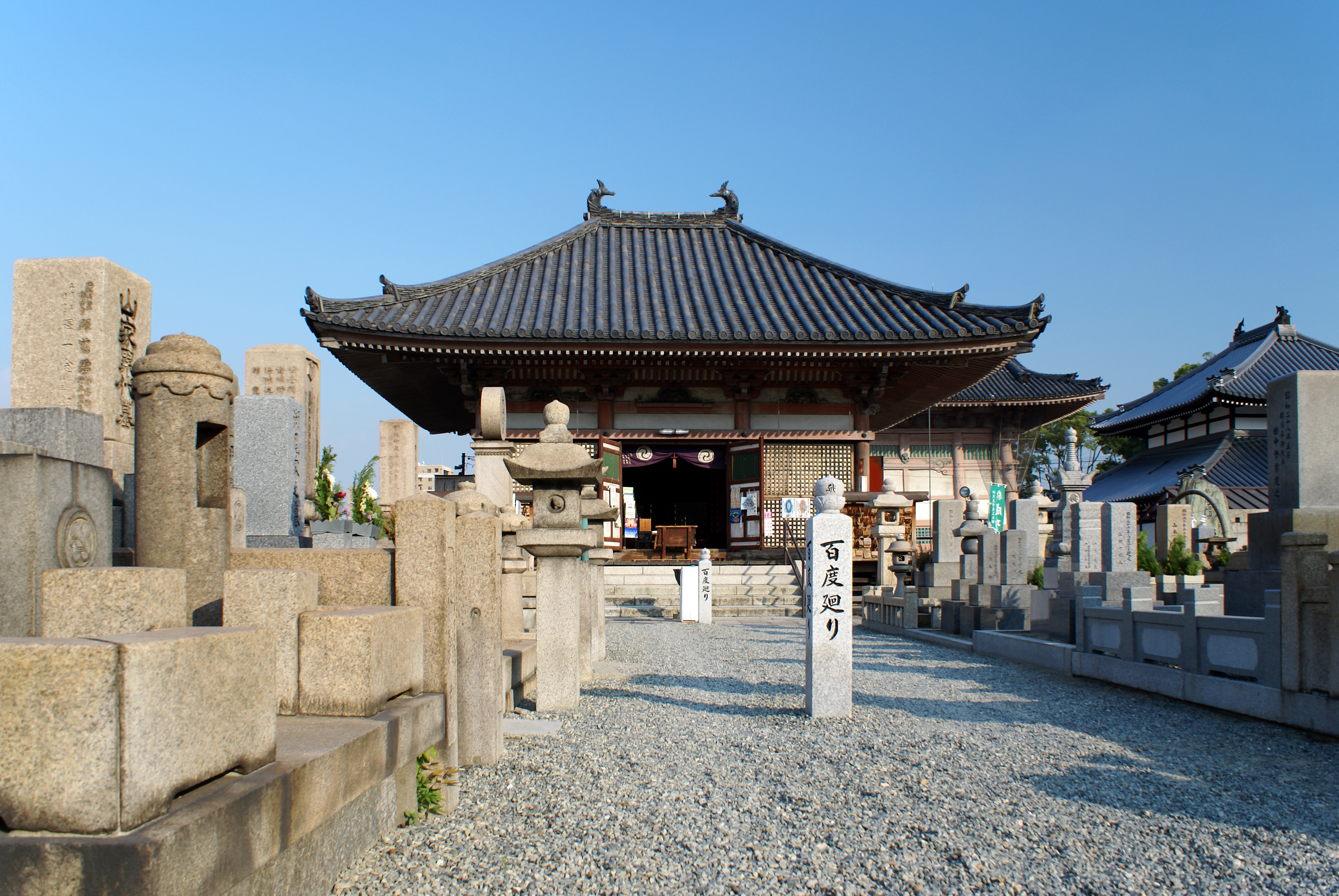 Ganzandaishido of Shitennō-ji in Osaka, Osaka prefecture, Japan